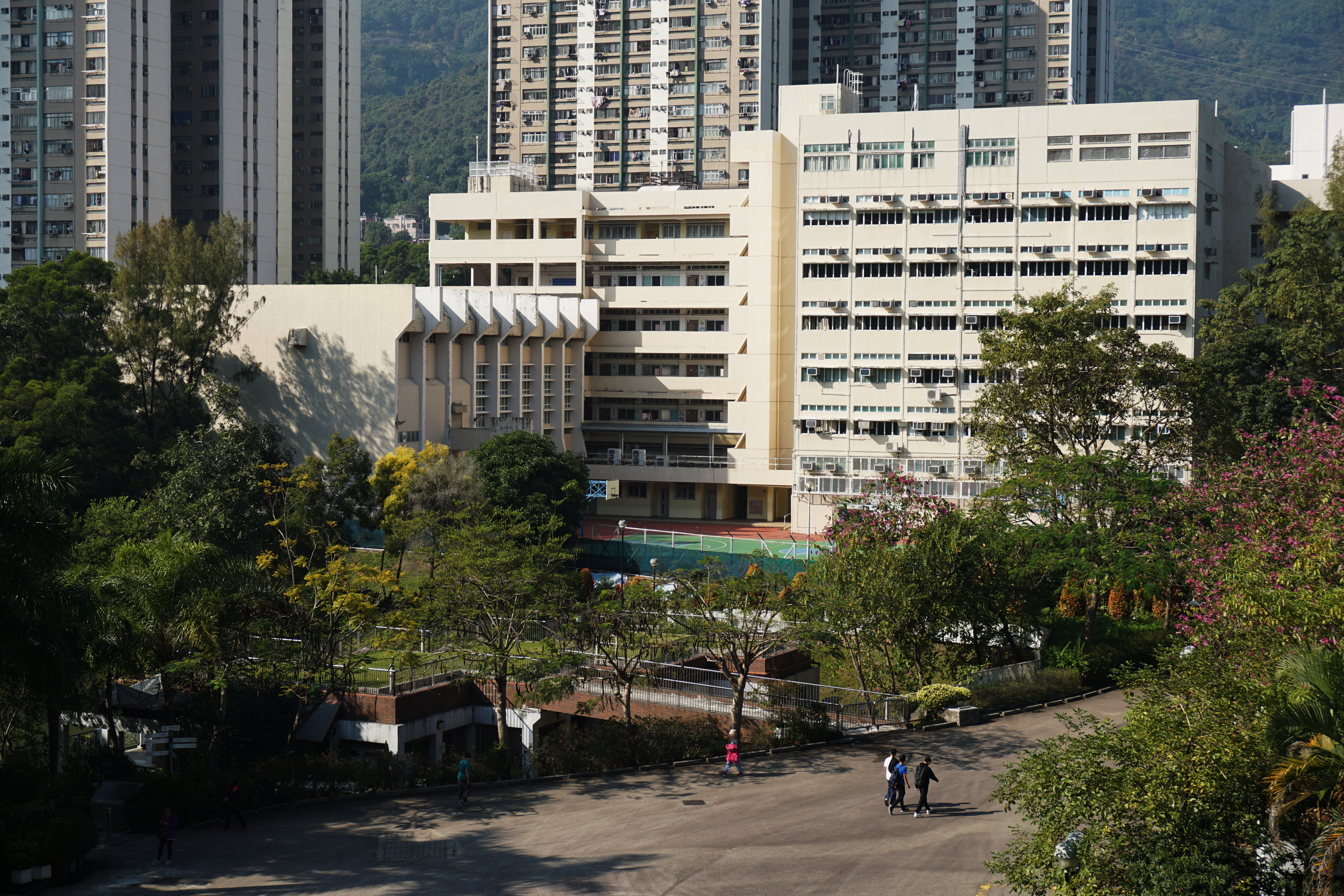 Public Ho Chuen Yiu Memorial College in Tsuen Wan, Hong Kong.